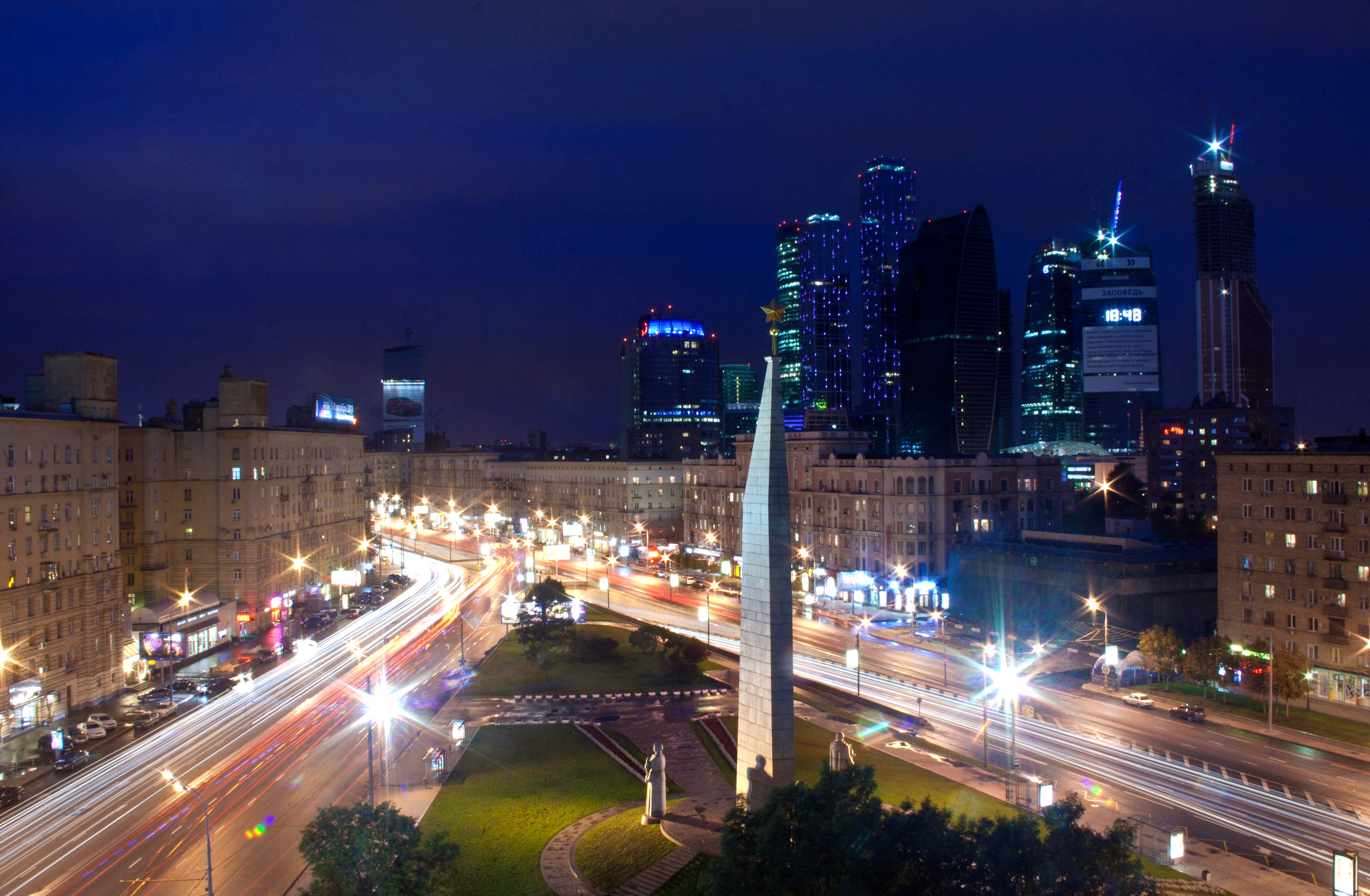 Dorogomilovskaya Zastava Square, Moscow, view to the west. Kutuzovsky Avenue merges here with Bolshaya Dorogomilovskaya Street, and continues west as Kutuzovsky.